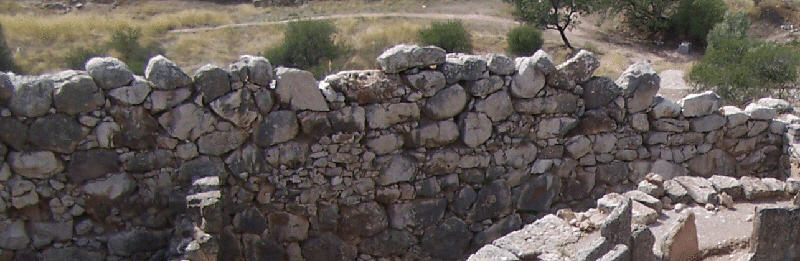 own photograph, summer 2006